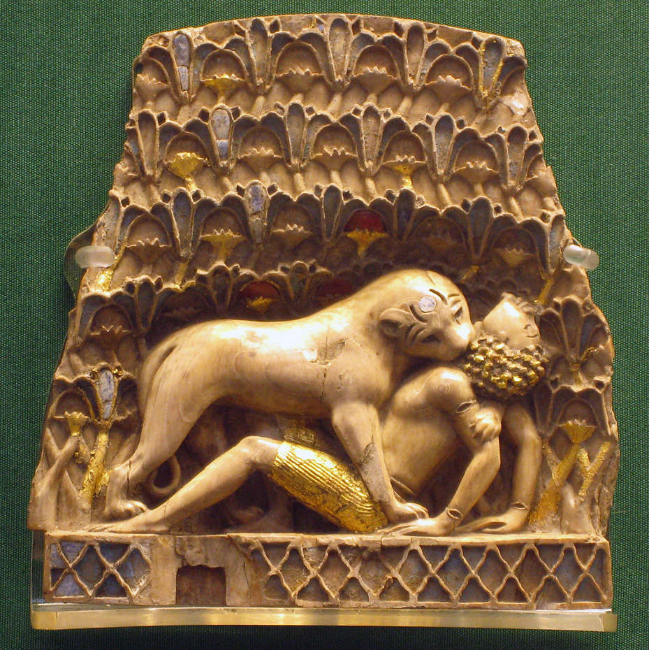 Ivory depiction of lion eating a man. British Museum 1954,0508.1 .